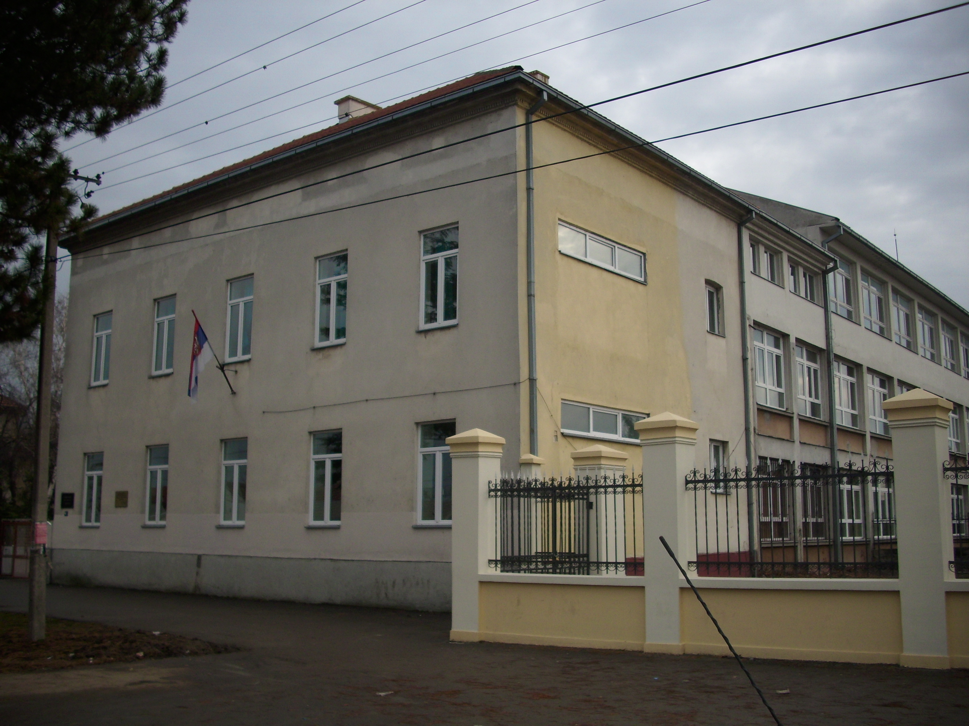 Boško Palkovljević Pinki primary school